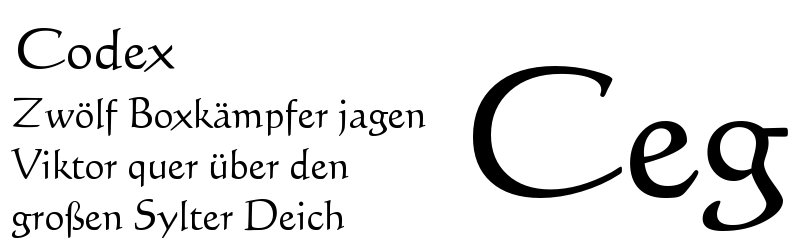 german pangram in typeface Codex